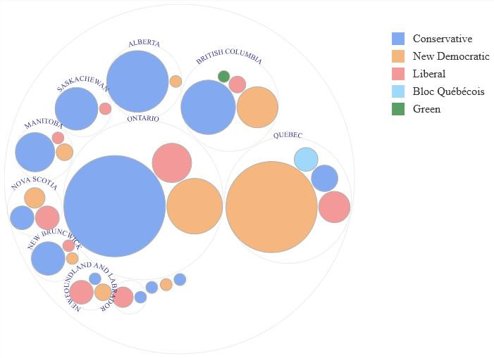 Canada Federal Elections 2011 by Province Circle Pack Diagram